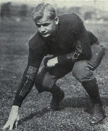 Photograph of Otto Pommerening